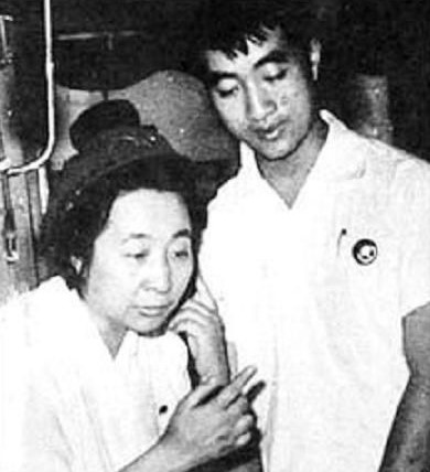 Lin Liguo (right) with his mother Ye Qun